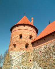 Trakai Castle's Left Pillon